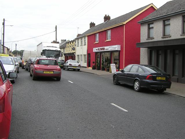 Castledawson, Derry / Londonderry